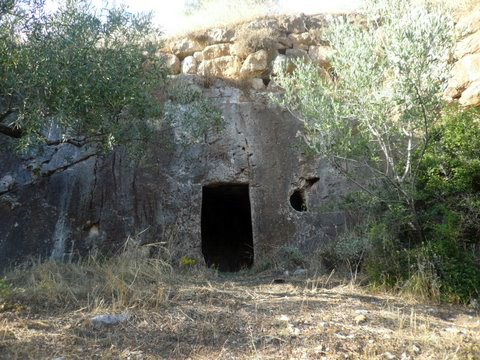 Askitario in Acropolis of Steirida, Boeotia, Greece